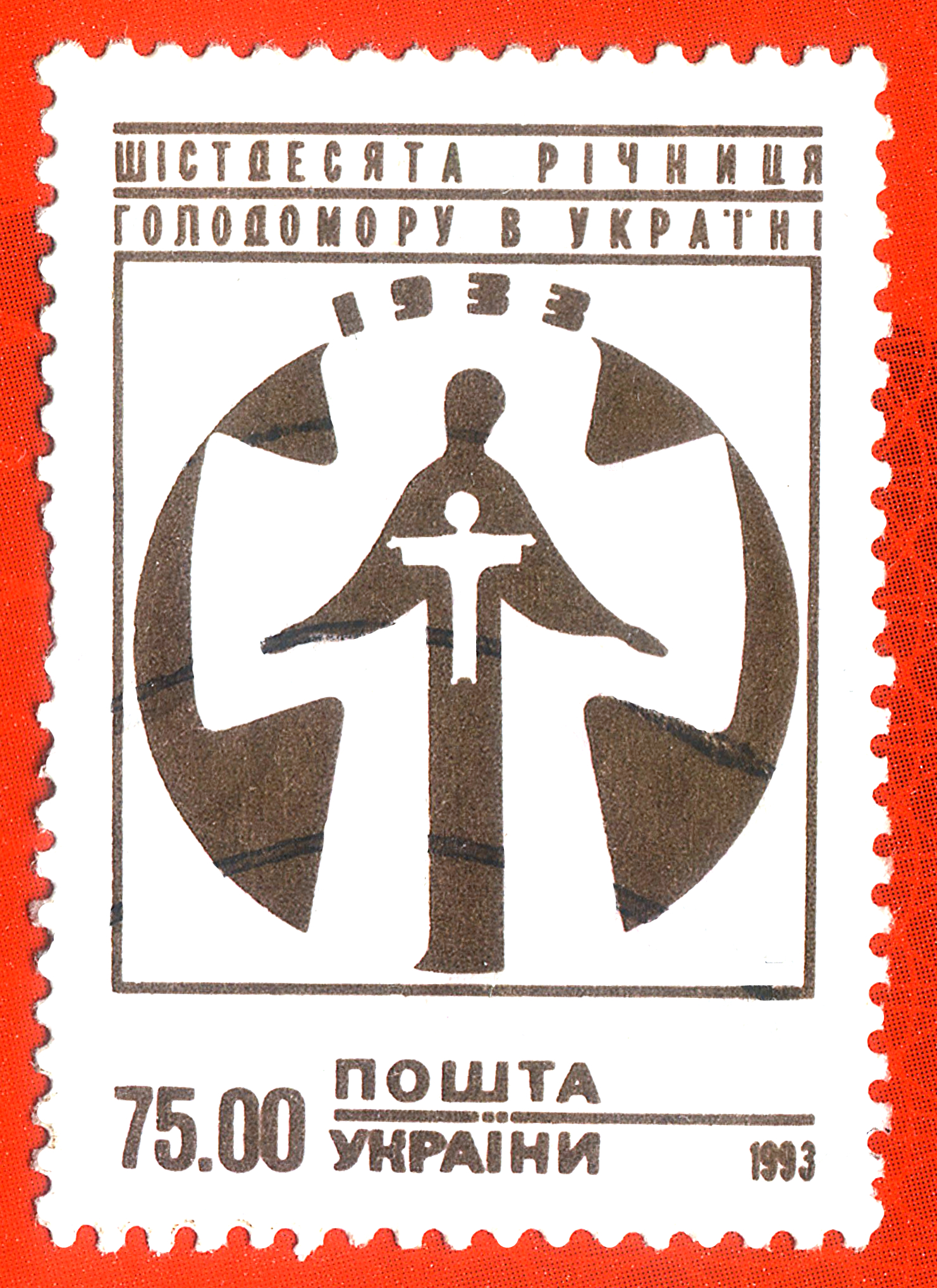 Stamps of Ukraine. 1993. Golodomor 1932-1933.